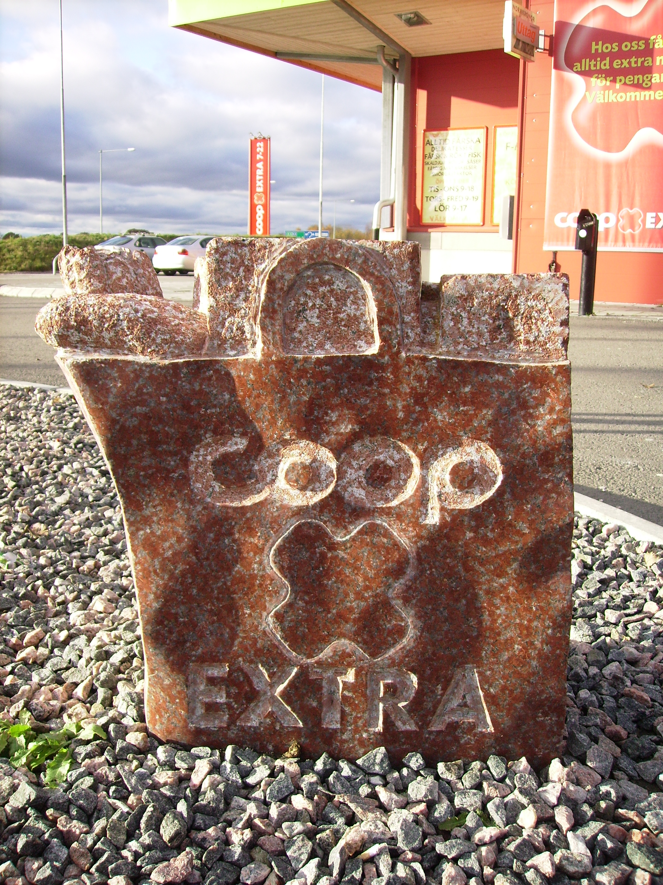 Picture of Coop Forum statue in Nyköping